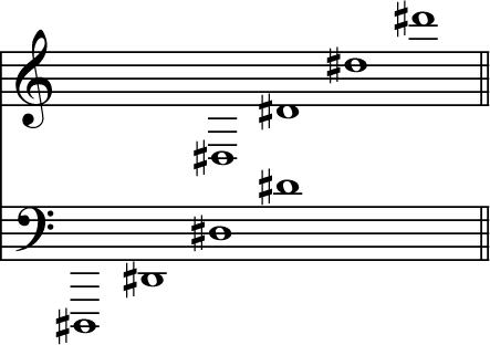 Notes, D Sharp